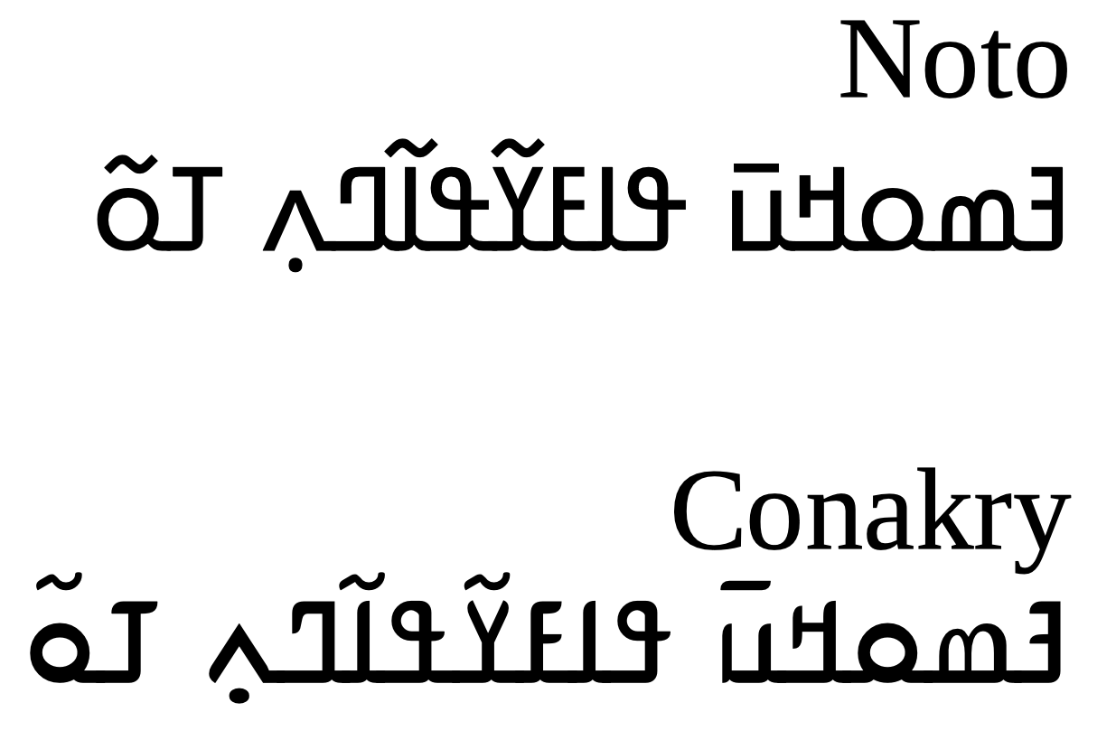 The words "The Free Encyclopedia" (ߔߘߋߞߎ߫ ߟߊߓߌ߬ߟߊ߬ߣߍ߲ ߠߋ߬) in N'Ko in Noto and Conakry fonts. The Latin font is Linux Libertine. All the fonts are free software released under the SIL Open Font license 1.1.